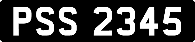 License plate from Guyana